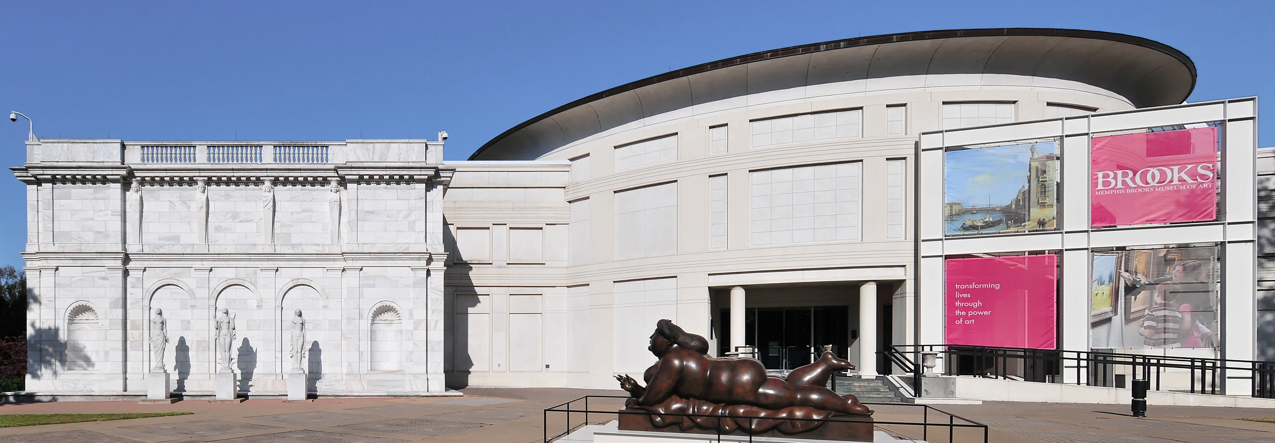 The "Memphis Brooks Museum of Art", which was founded in 1916, is the oldest and largest art museum in the state of Tennessee (United States). Fernando Botero's "Smoking Woman" is looking to the "Three Graces" of Memphis.